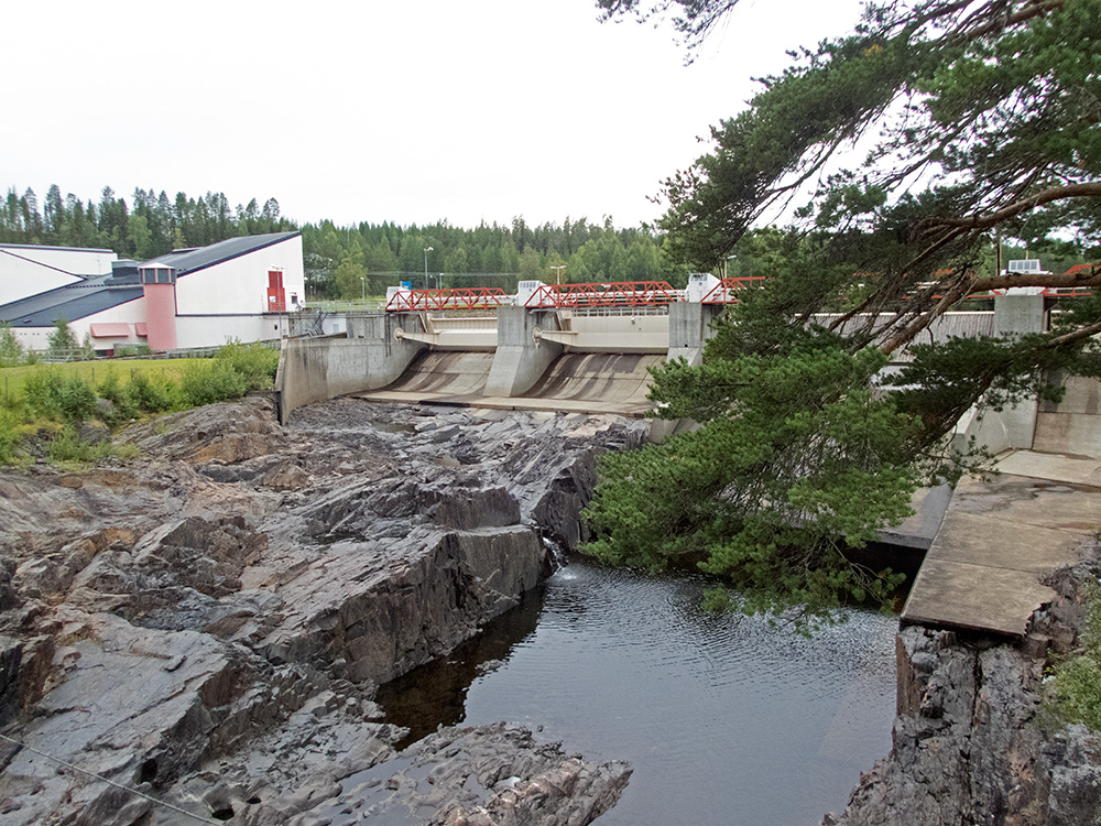 Finnfors new power plant in the Skellefte River.